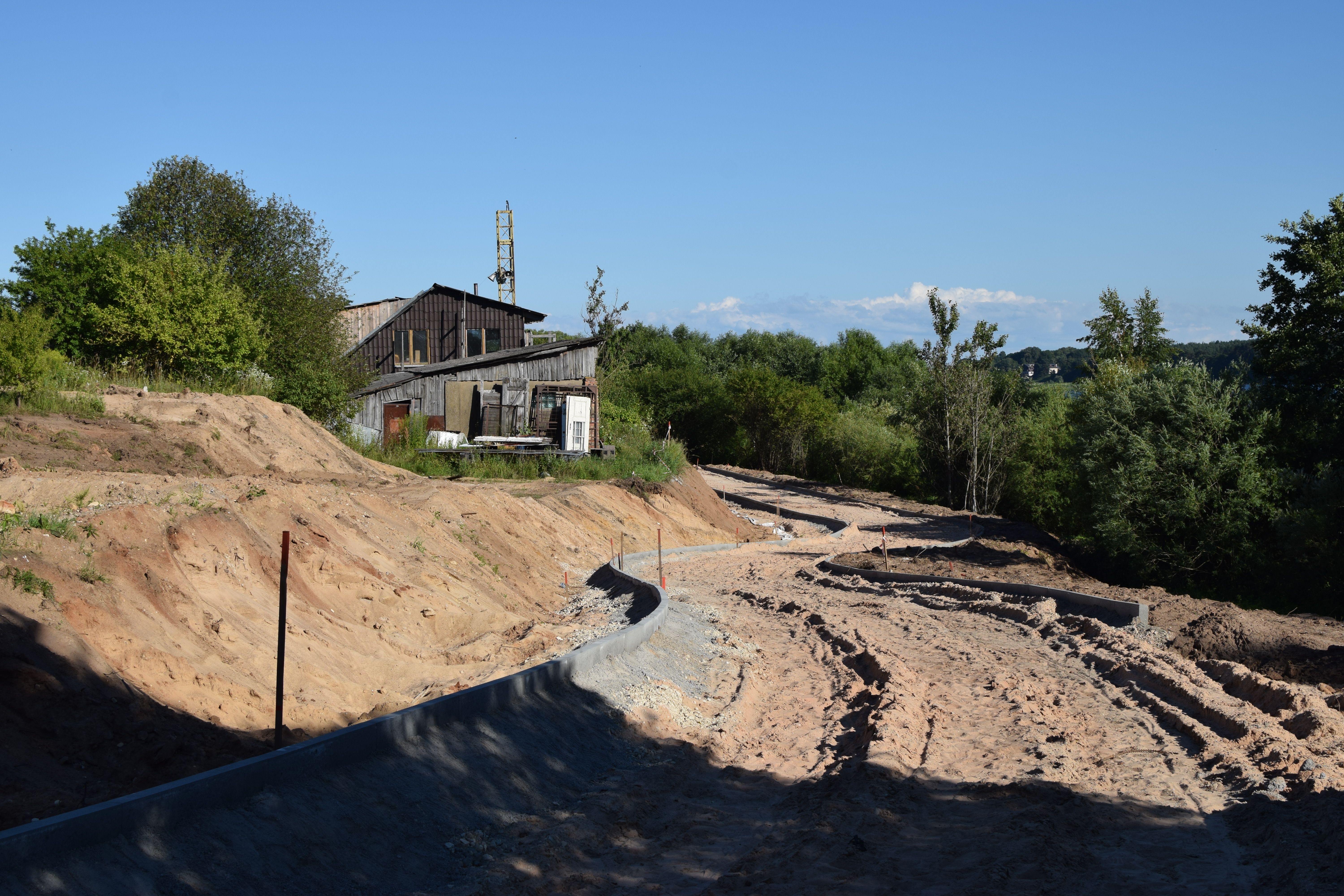 Bicycle path in Rumbula